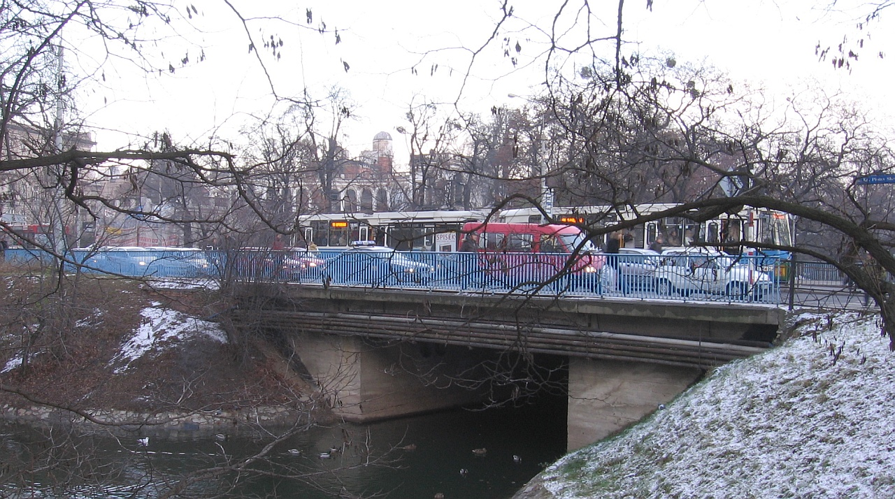 Wrocław, Poland Piotra Skargi Bridge over Town Moat; in background the hill called Wzgórze Partyzantów (former Liebichhöhe)